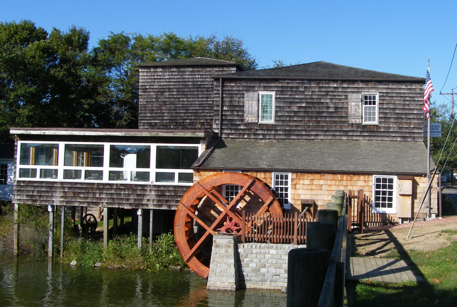 Watermill, New York